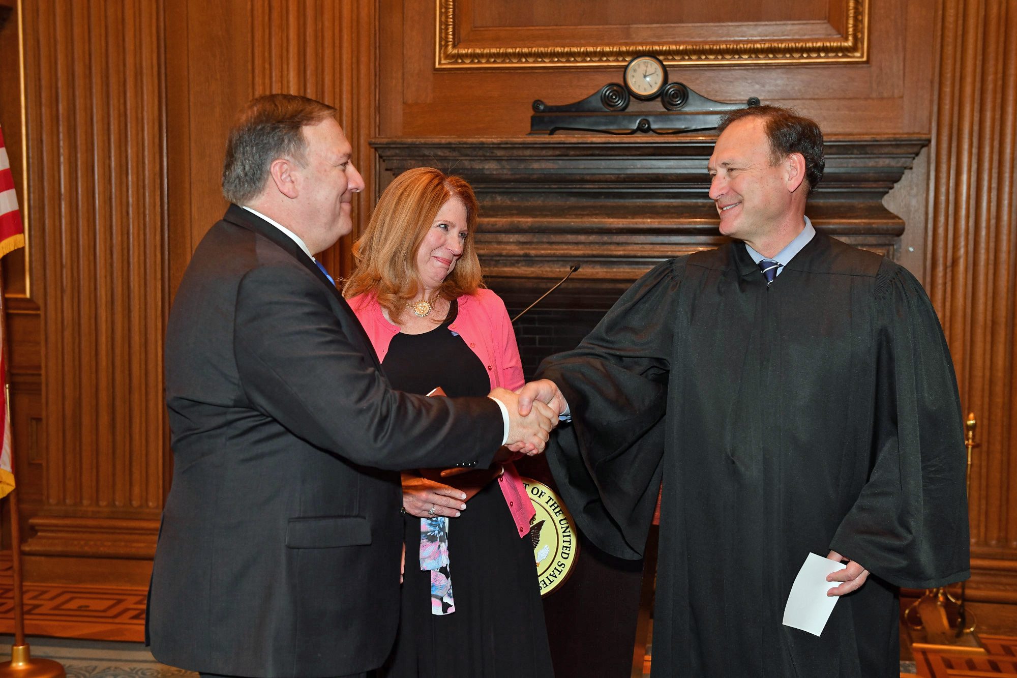 Secretary Pompeo Shakes Hands With Supreme Court Justice Alito After Being Sworn-In as Secretary of State U.S. Secretary of State Mike Pompeo shakes hands with Supreme Court Justice Samuel Alito after being sworn-in as the 70th Secretary of State in the West Conference Room of the Supreme Court in Washington, D.C. on April 26, 2018. [State Department photo/ Public Domain]